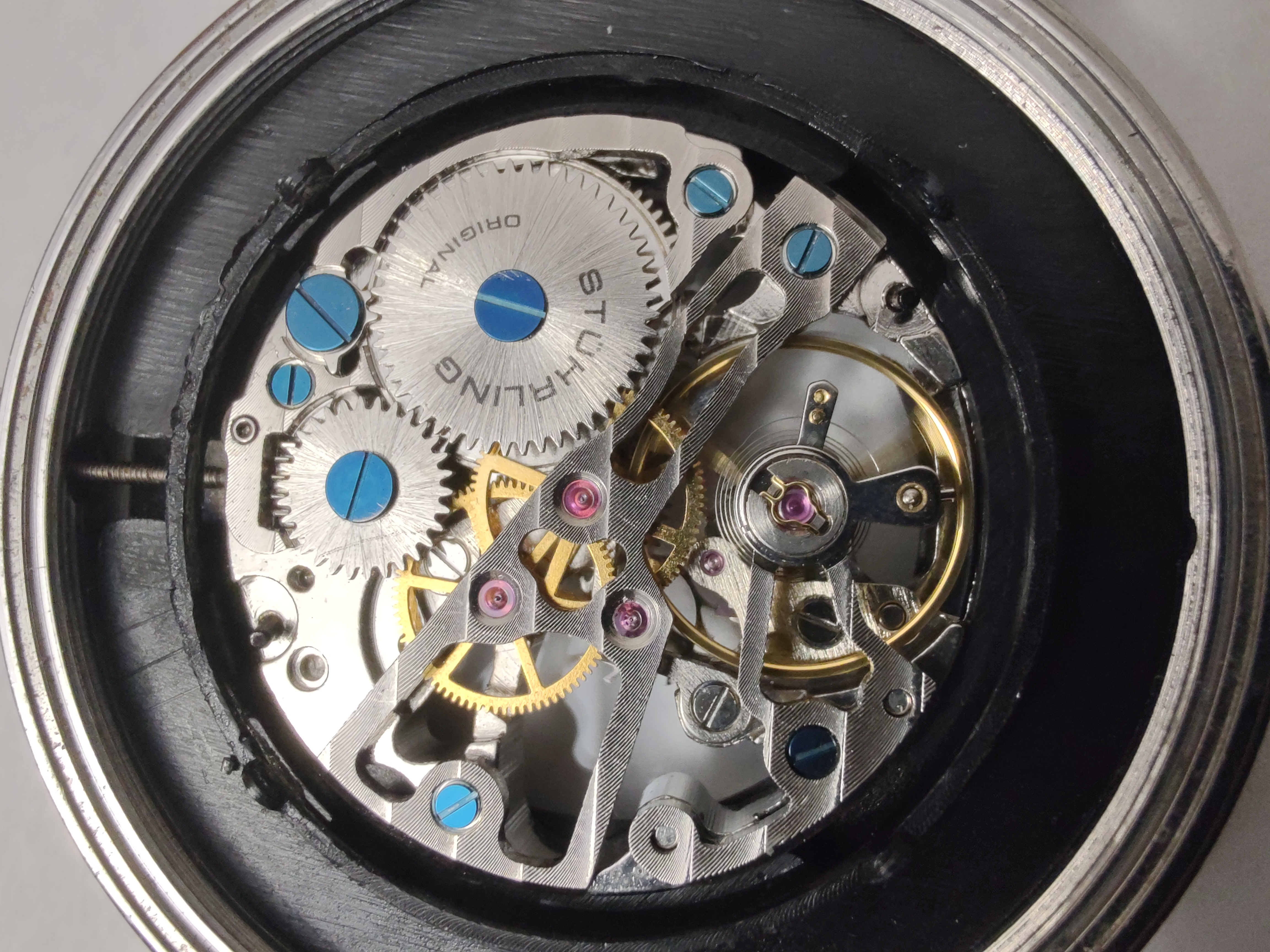 A watch with the Chinese Standard Movement using after-market (i.e. non-manufacturer) parts (crown; hands not visible).